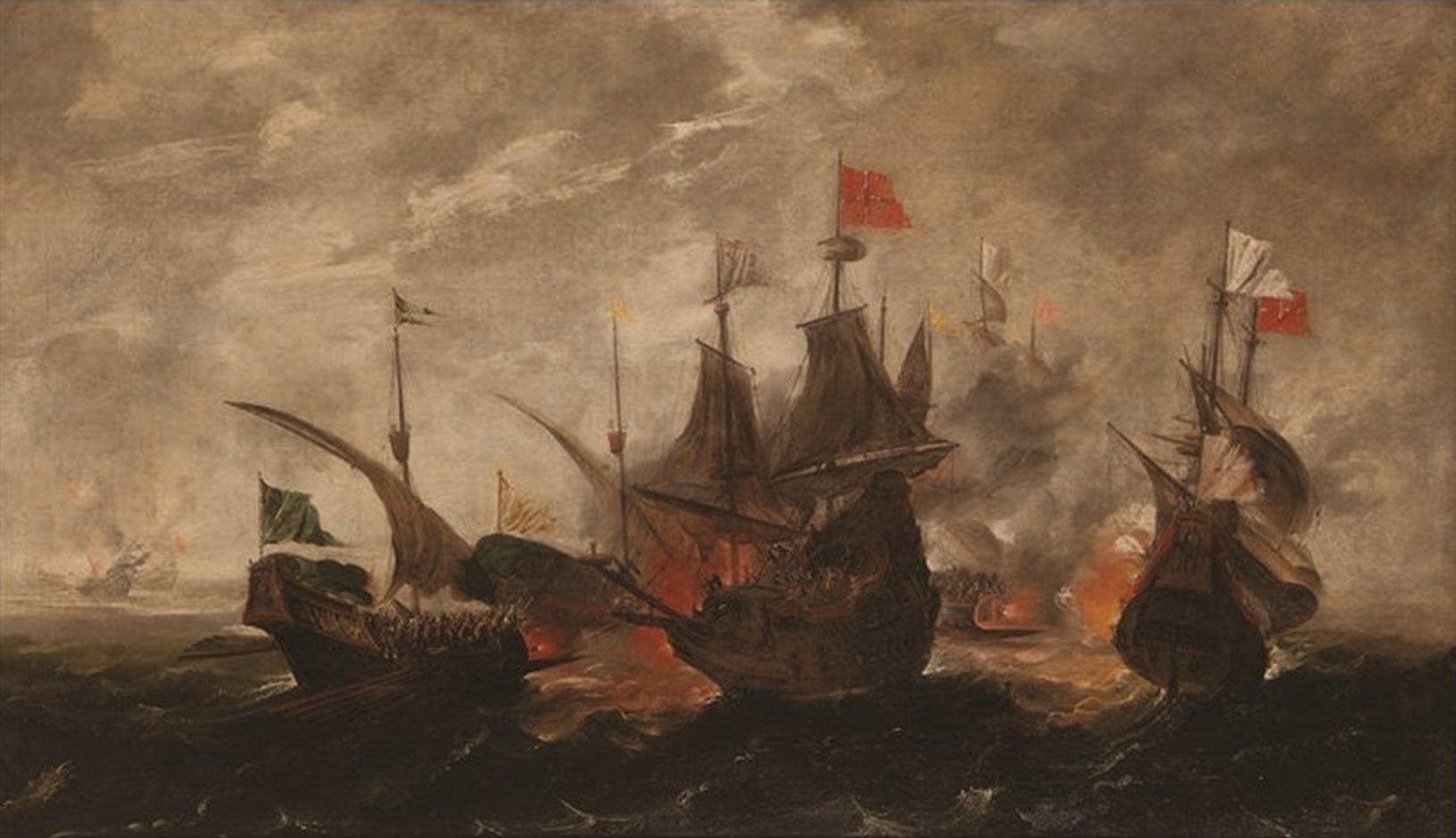 The Battle of Lepanto by Hans Savery the Elder, oil on canvas, 83 x 146 cm. (32.7 x 57.5 in.)